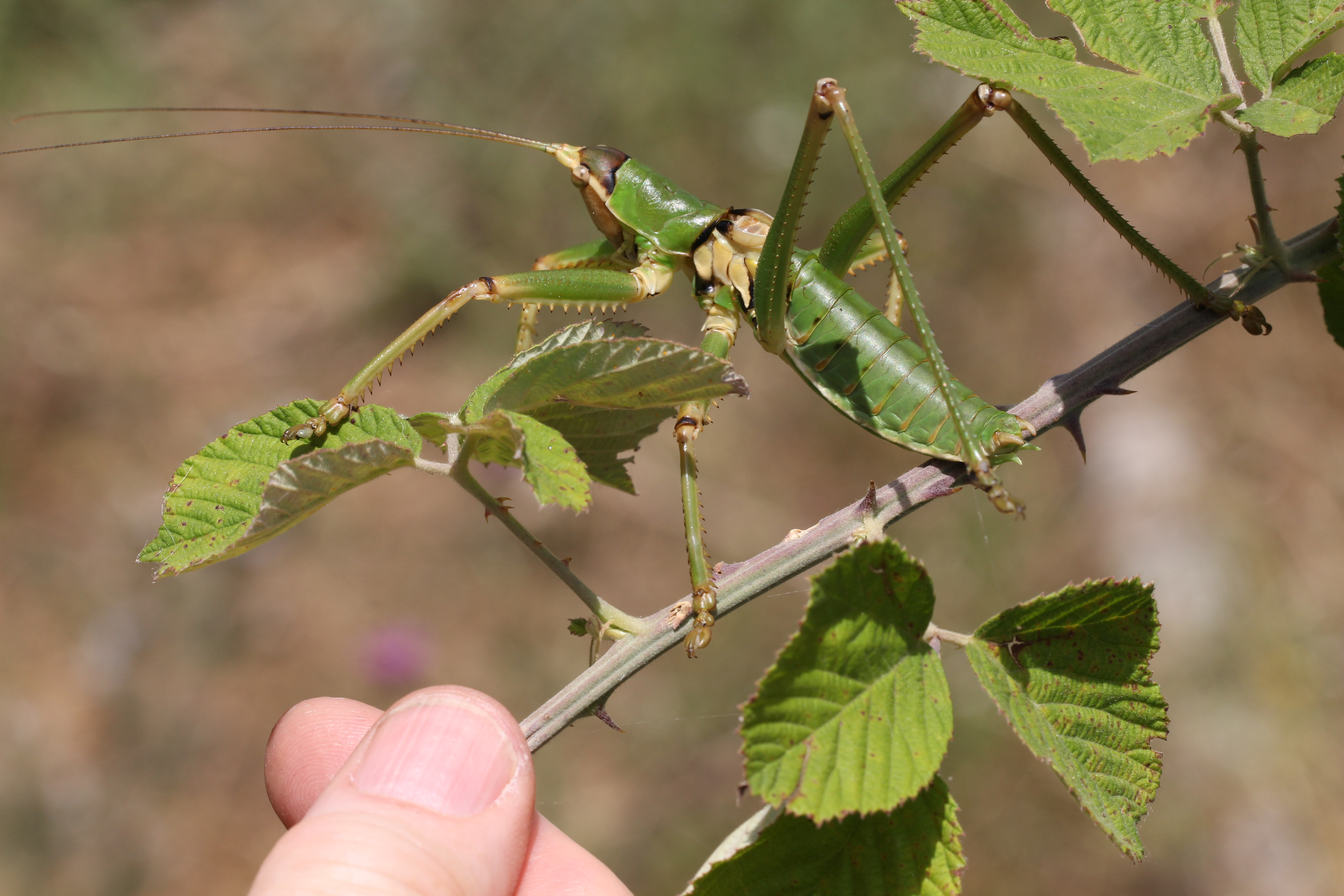 I don't think you're likely to encounter many bigger insects in Europe than Saga natoliae. This flightless bush-cricket preys on other bush-crickets.